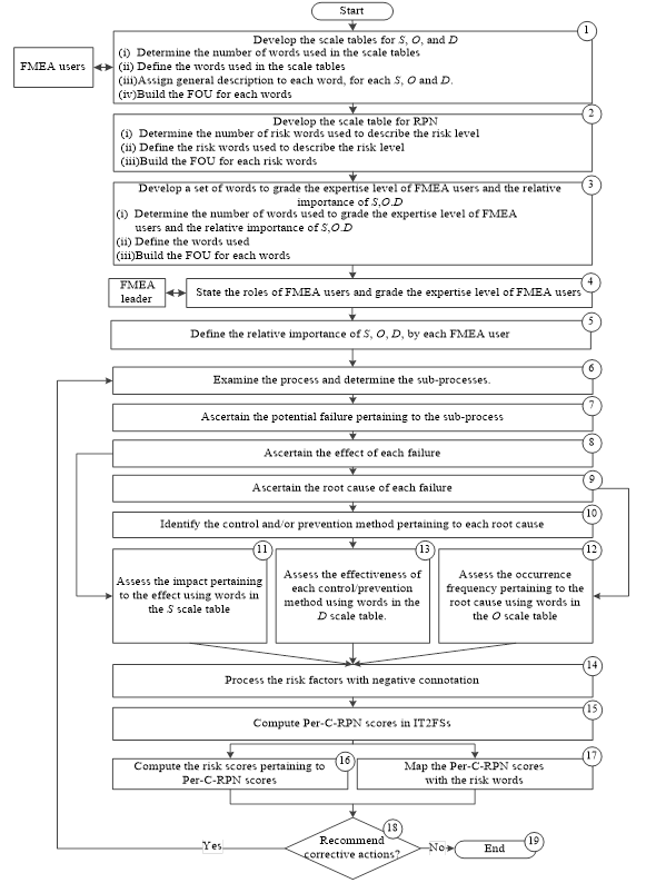 Per-C based Failure Mode and Effect Analysis Procedure